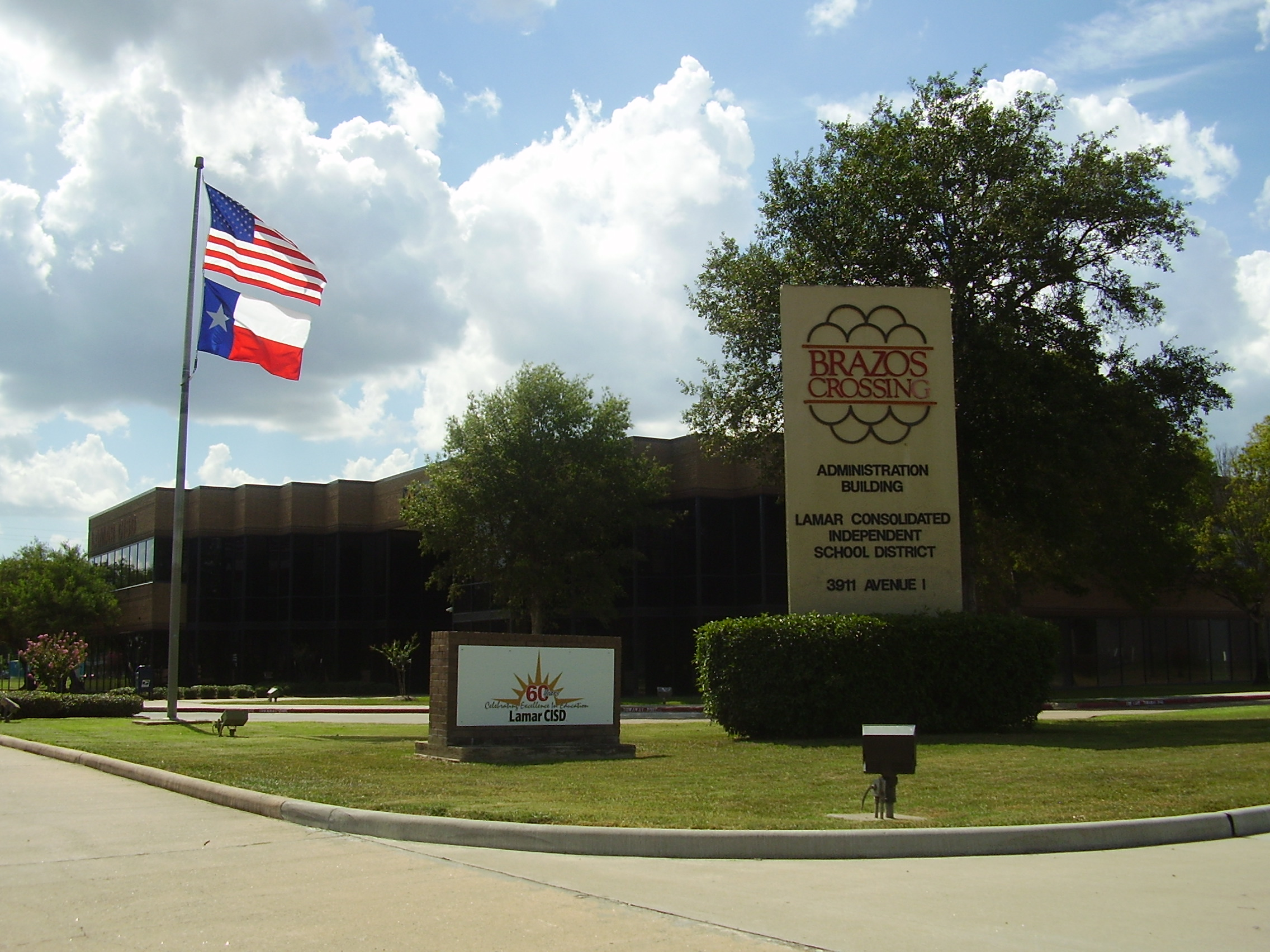 Brazos Crossing, the Lamar Consolidated Independent School District administration building